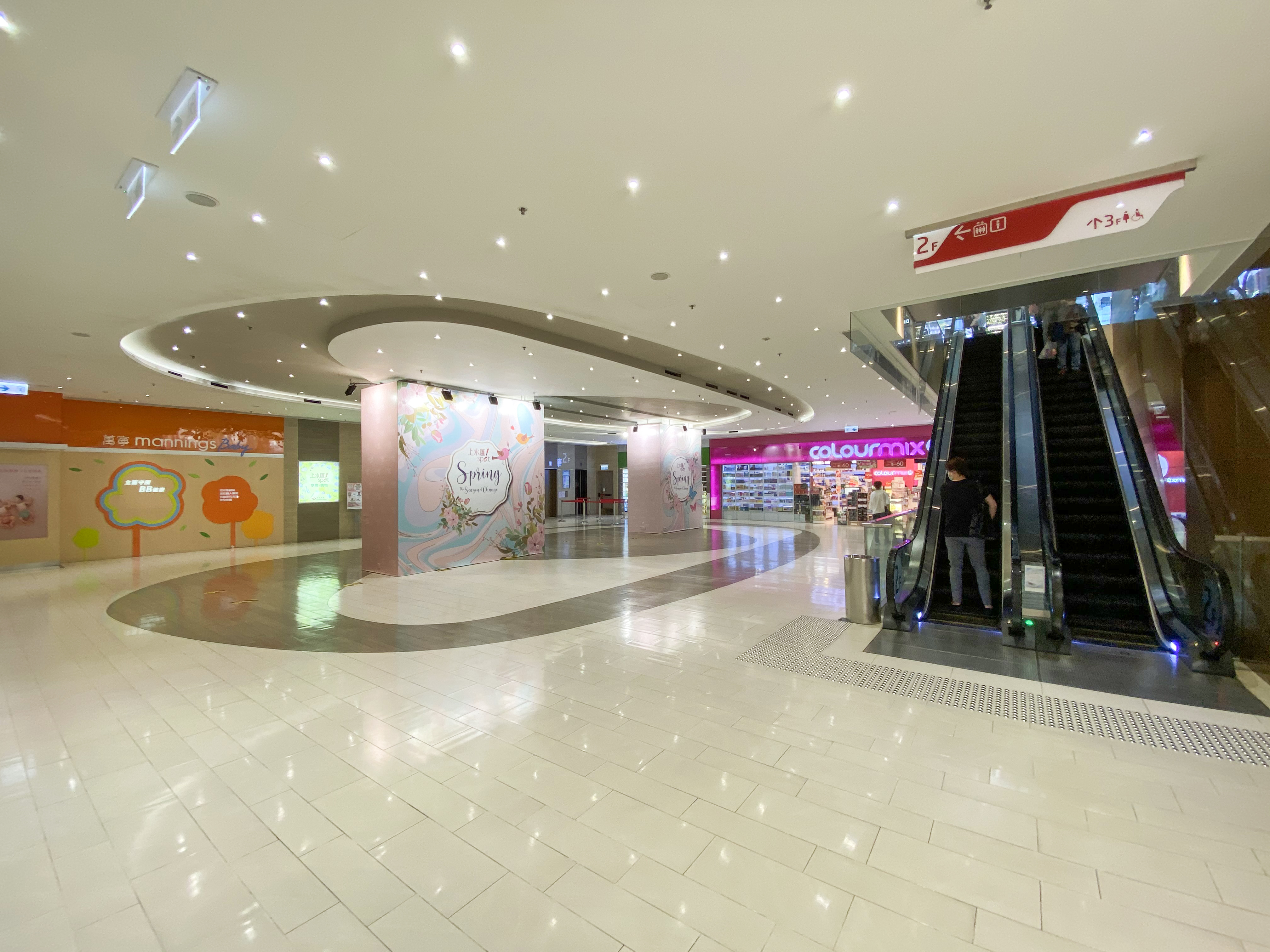 Sheung Shui Spot Level 2